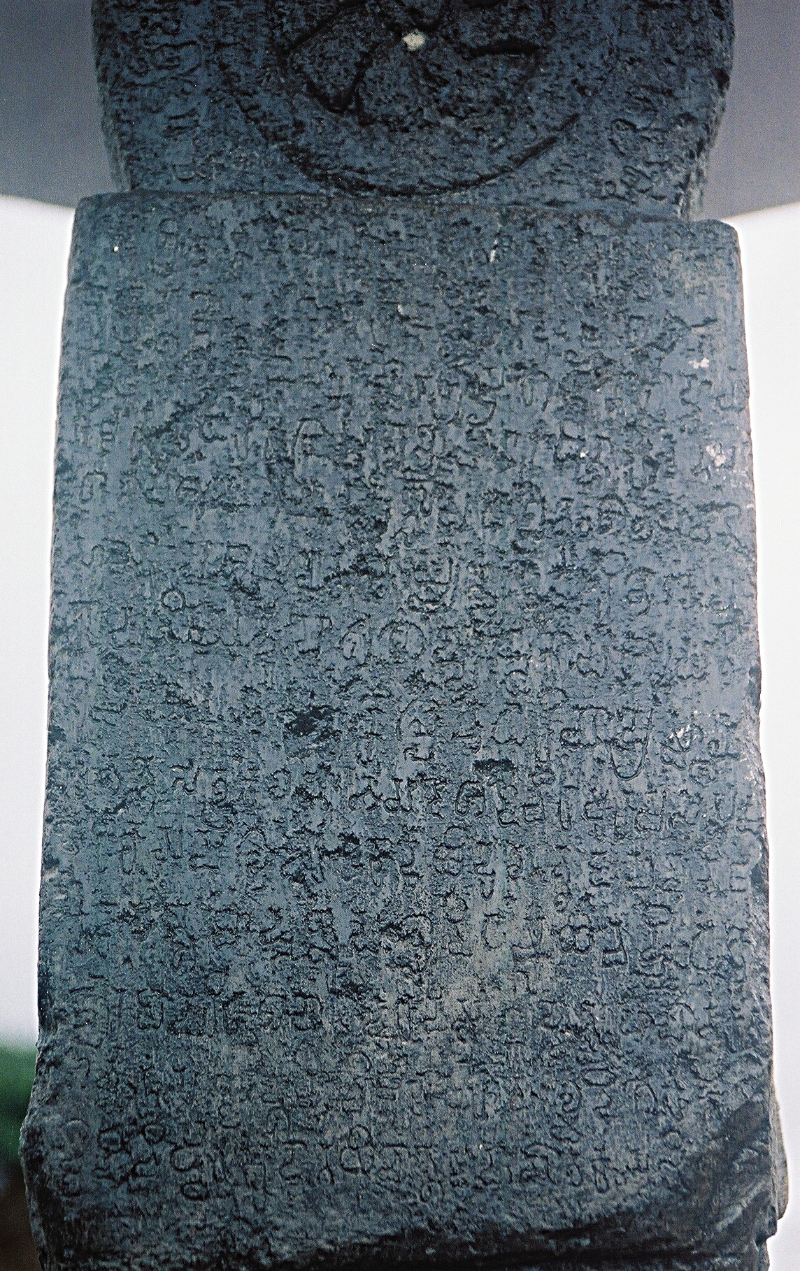 photograph of the Halmidi inscription at Halmidi village, Hassan district, Karnataka state, India. This inscription, which is usually dated to 450 CE, is the oldest known full length Kannada language inscription in old Kannada script.